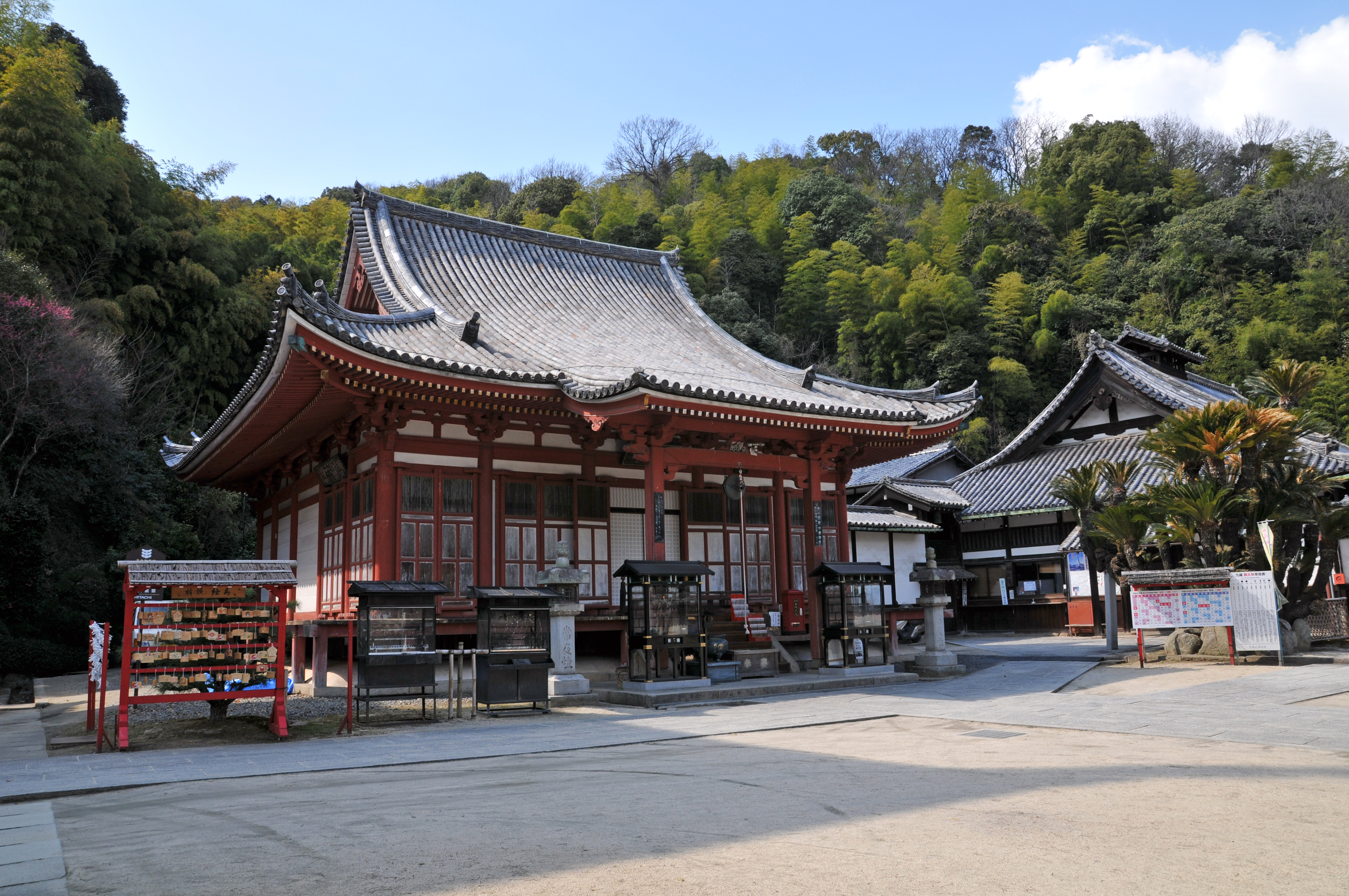 Main temple and Kuri, Myōō-in